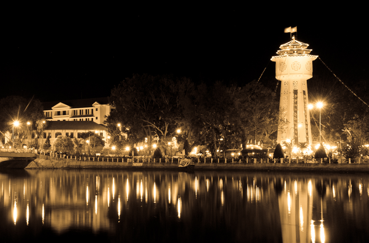 Cà Ty river running through downtown Phan Thiet by night.